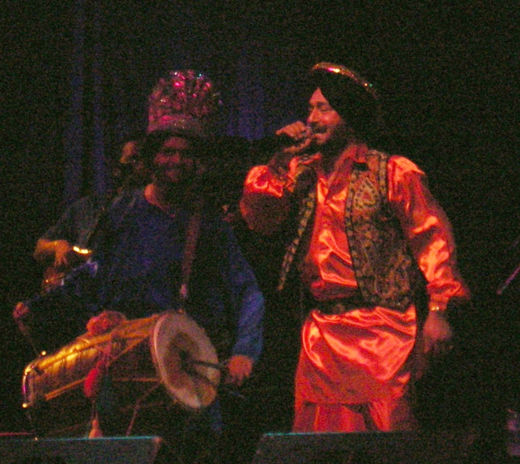 Malkit Singh acting live at 2005 Getxo Folk Festival